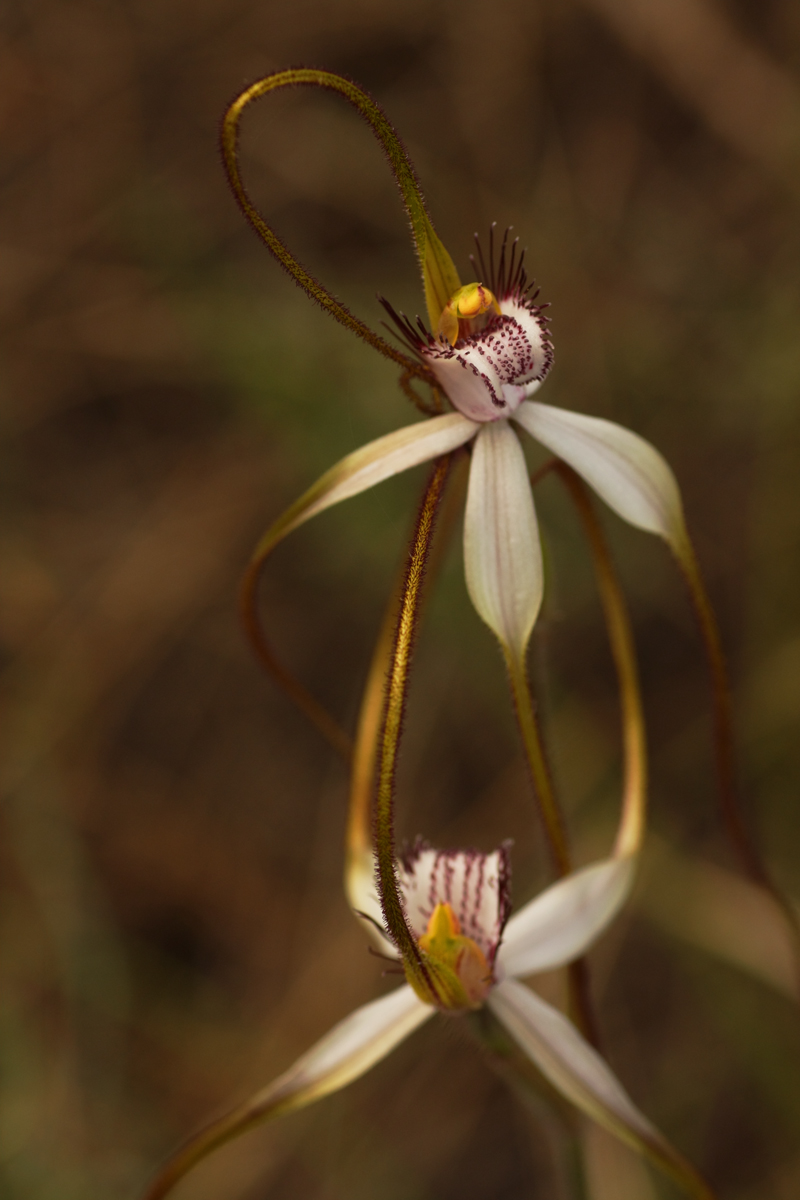 Caladenia longicauda subsp. borealis, 'Daddy Long Legs'; Enneaba Western Australia